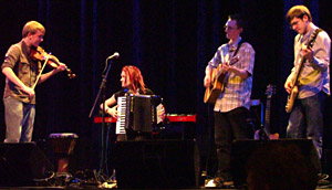 Photograph of folk band Kerfuffle onstage